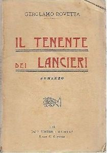 copertina di testo edizioni Madella di oltre 70 anni